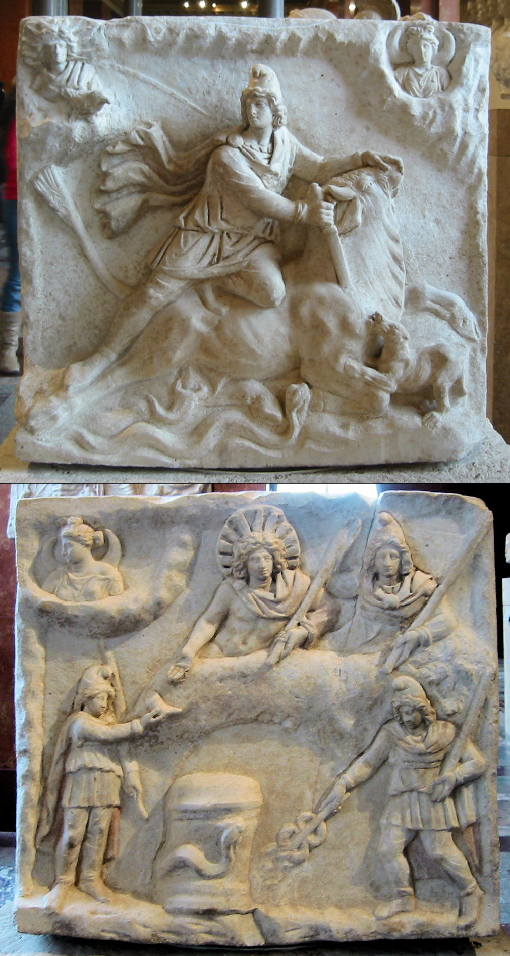 Double-sided 2nd-3rd century Mithraic altarpiece found near Fiano Romano, near Rome, and now in the Louvre. For full descriptions, see User:Jastrow's hi-res versions: File:Mithras_tauroctony_Louvre_Ma3441b.jpg (obverse; tauroctony scene), and File:Mithras_banquet_Louvre_Ma3441.jpg (reverse; banquet scene).